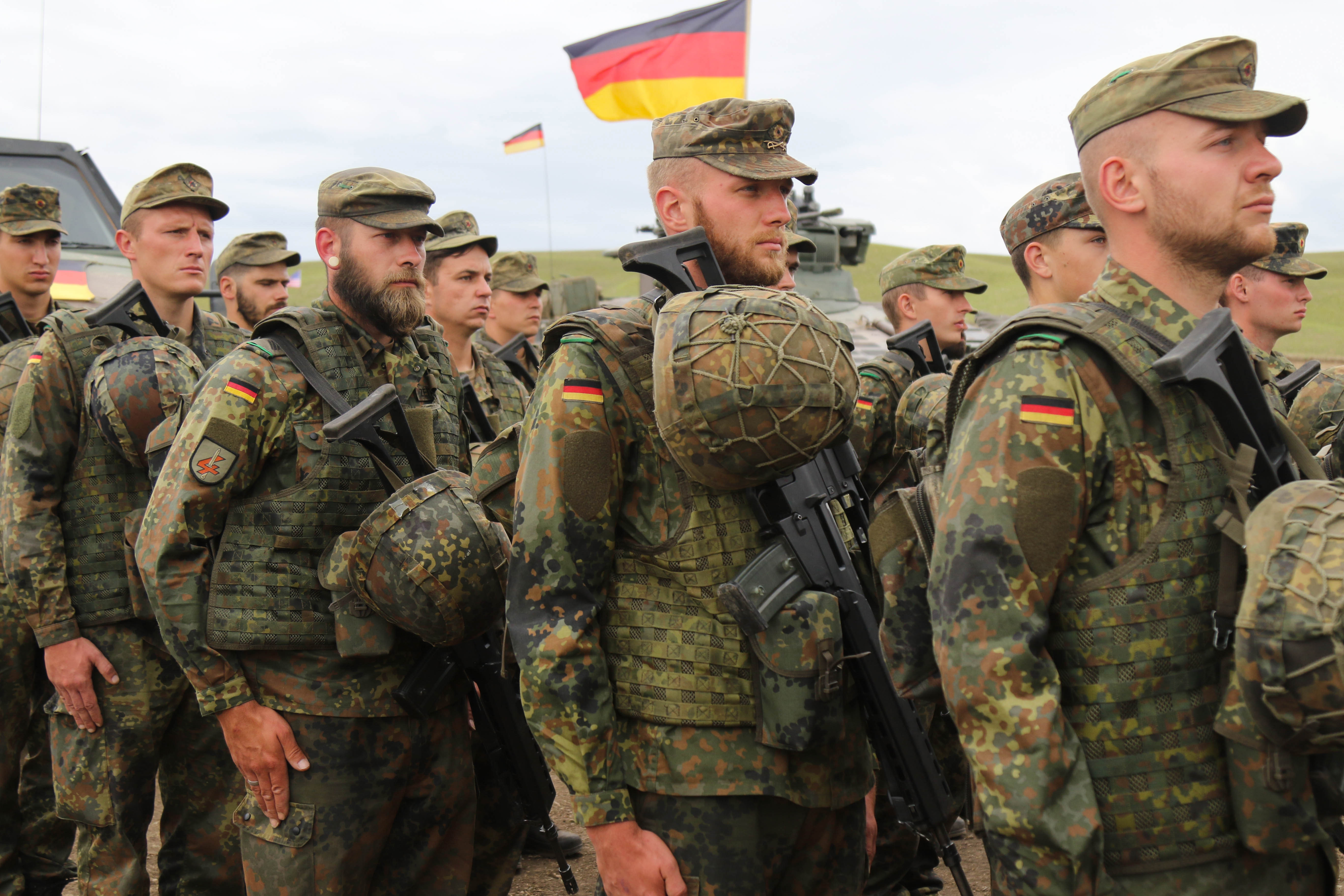 German army soldiers stand at attention for the Georgian national anthem during the closing ceremony for Noble Partner 18 at Vaziani Training Area, Georgia, Aug. 15, 2018. Noble Partner 18 was a cooperatively-led multinational training exercise in its fourth iteration which supported the training of Georgian Armed Forces' mechanized and Special Operation Forces, U.S. Regionally Aligned Forces, the U.S. Army and Air National Guard from the state of Georgia, and 11 other participating nations.